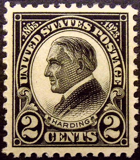 U.S. Postage stamp: Warren G. Harding, Issue of 1923, 2c, blackWarren G. Harding memorial stamp, issued one month after his death in 1923.